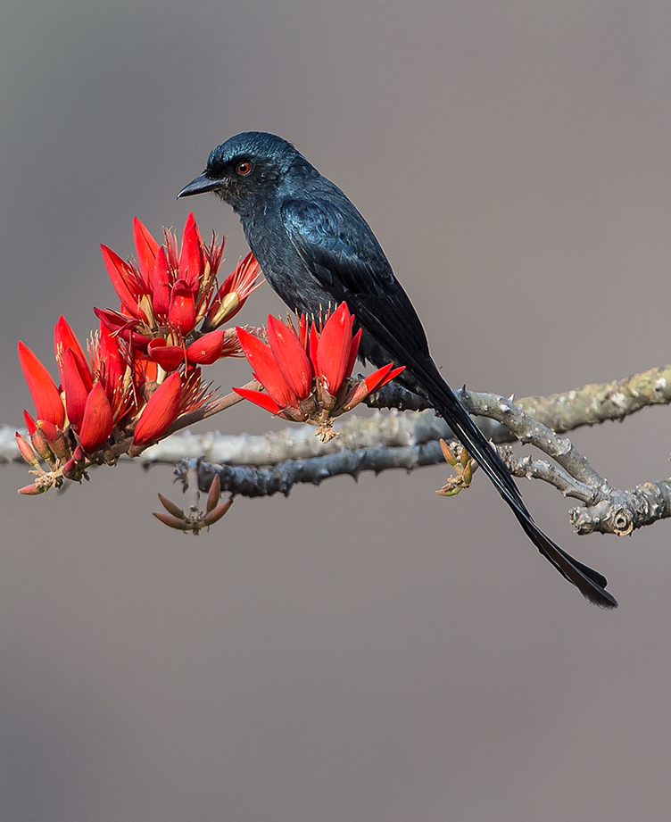 Ashy Drongo (Dicrurus leucocephaeus) Sattal, April, 2016